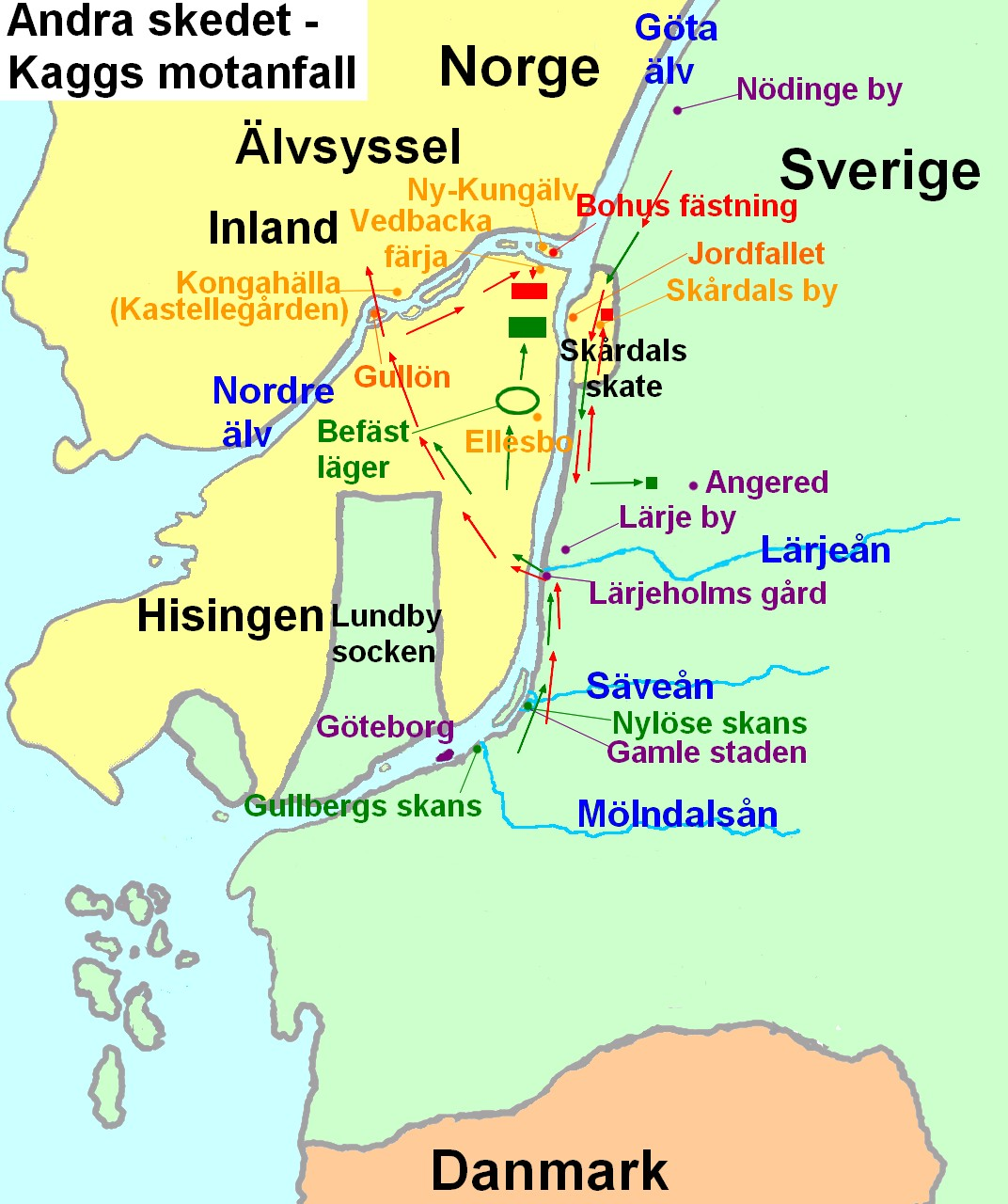 Movements during the second phase of the Battle at Ranängen, Sweden in August 1645. Swedish in green colour, and Nowegian-Danish in red.